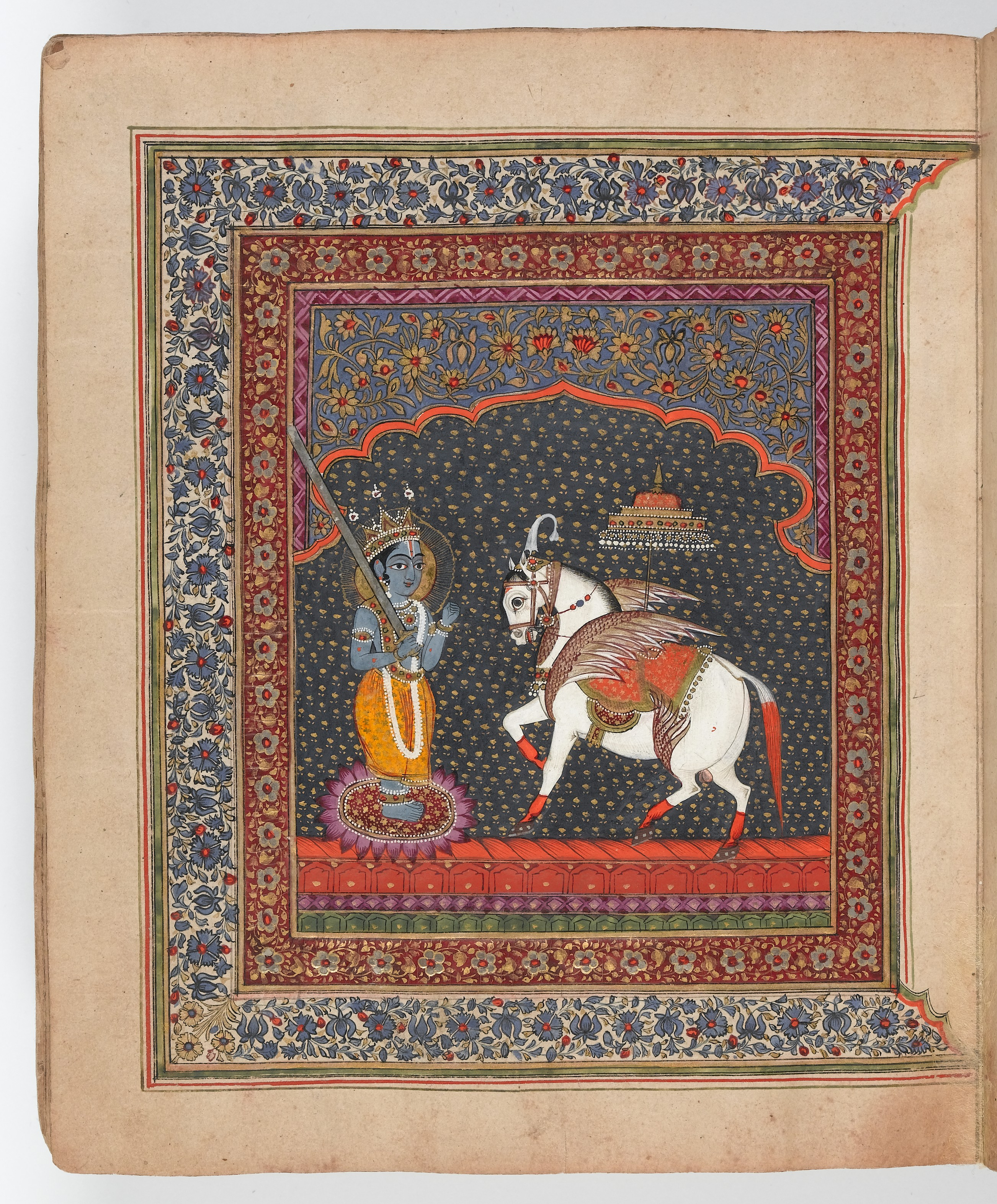 Kalki, avatara of Visnu. Asian Collection Keywords: Krishna; Sacred Subjects; Mythology